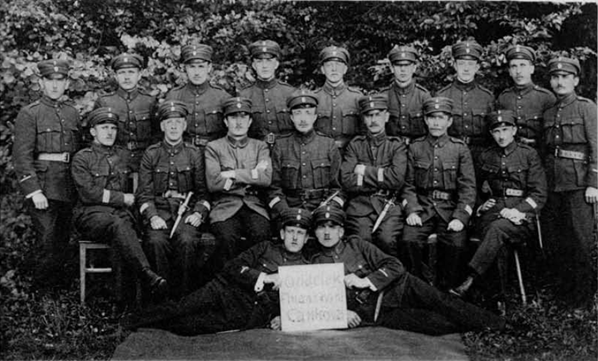 Financial Guard Section from Cankova, year 1927.